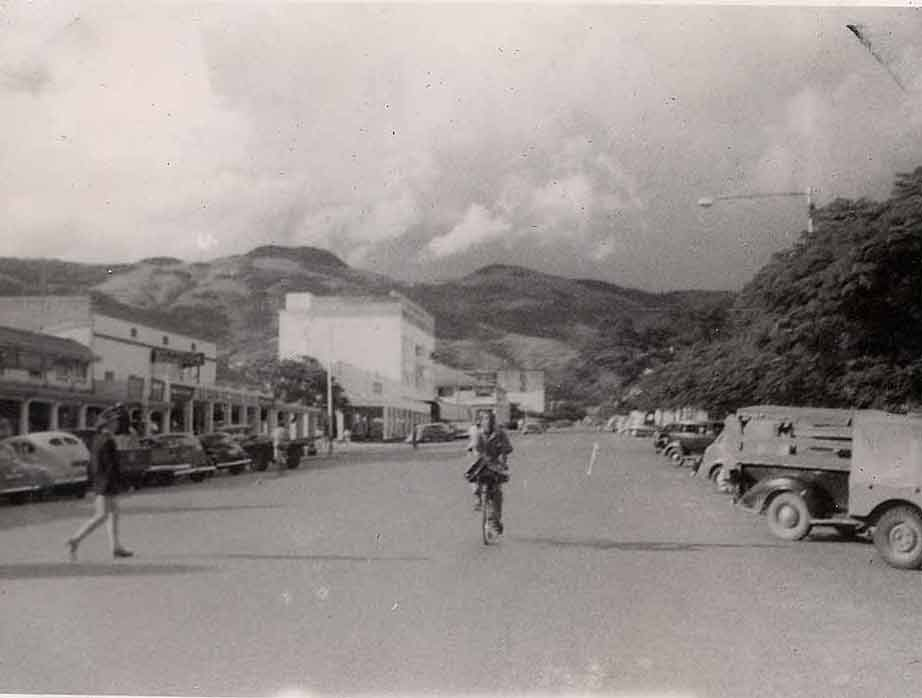 Main Street, Umtali (Mutare), Zimbabwe, 1952.